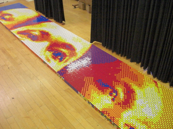 Pete Fecteau's 2010 Rubik's Cube mosaic "Dream Big" in progress.